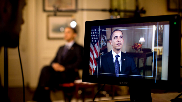 A snapshot of one of Barack Obama's weekly addresses.